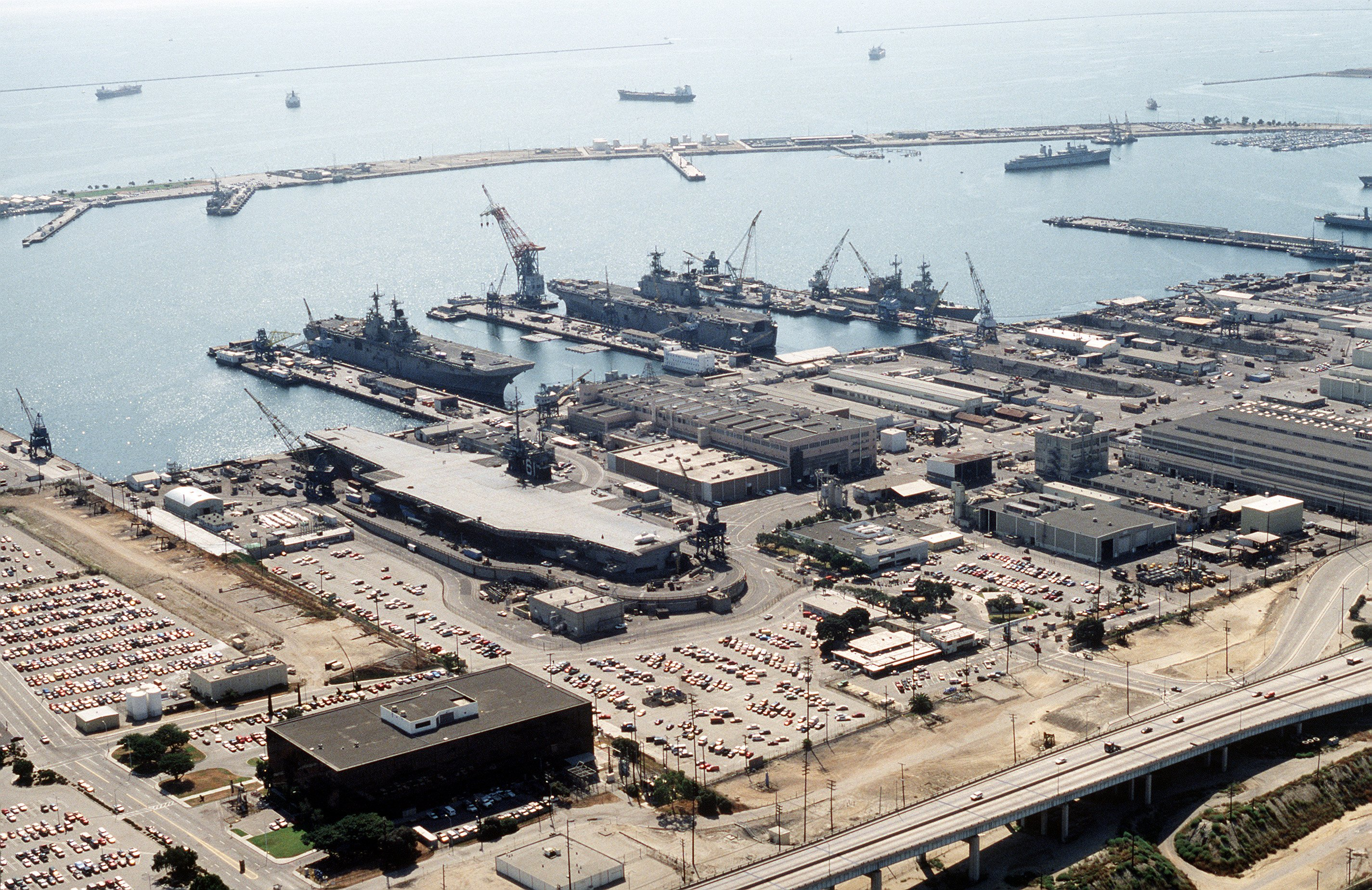 An aerial view of the decommissioned aircraft carrier USS Ranger (CV-61) in a graving dock at the shipyard Long Beach Naval Shipyard, California (USA), on 6 October 1993. Moored in the background are the amphibious assault ships USS Essex (LHD-2), left, and USS Tarawa (LHA-1), right.